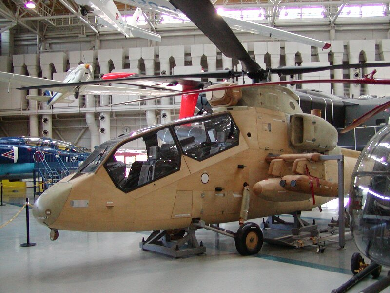 Wooden mock-up of OH-1.